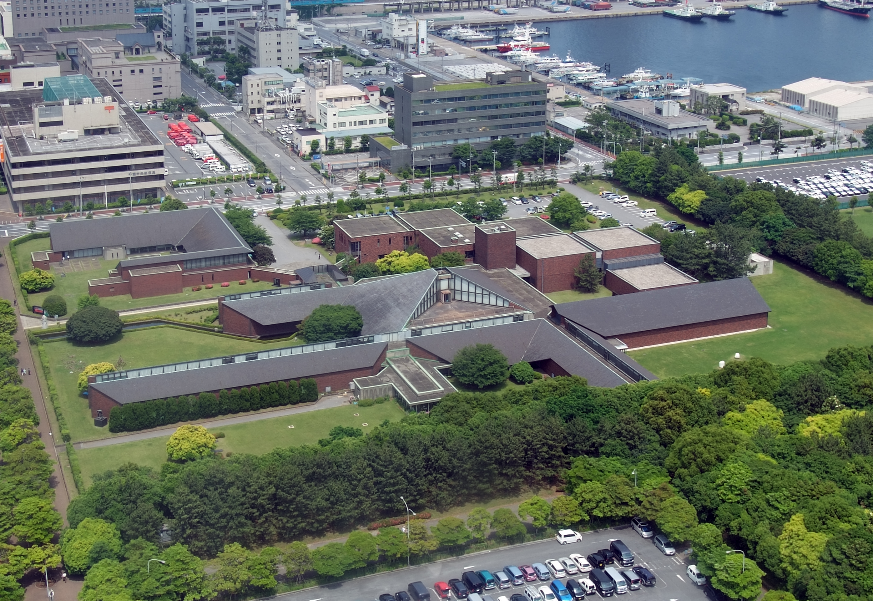 Chiba Prefectural Museum of Art, Chiba Chiba Japan, designed by Masato Otaka. Photo from Chiba Port Tower.